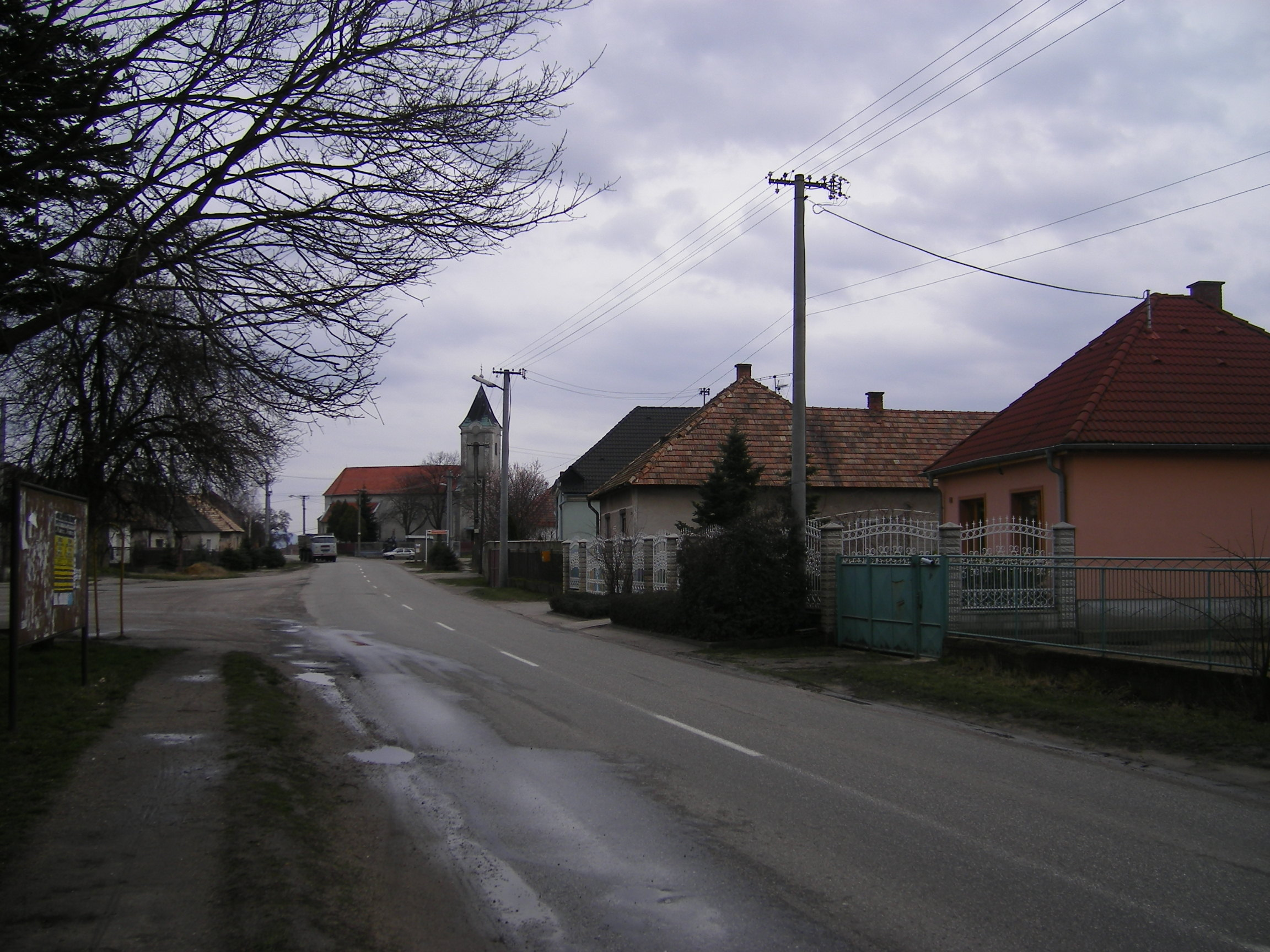 Marcelová, streetview.